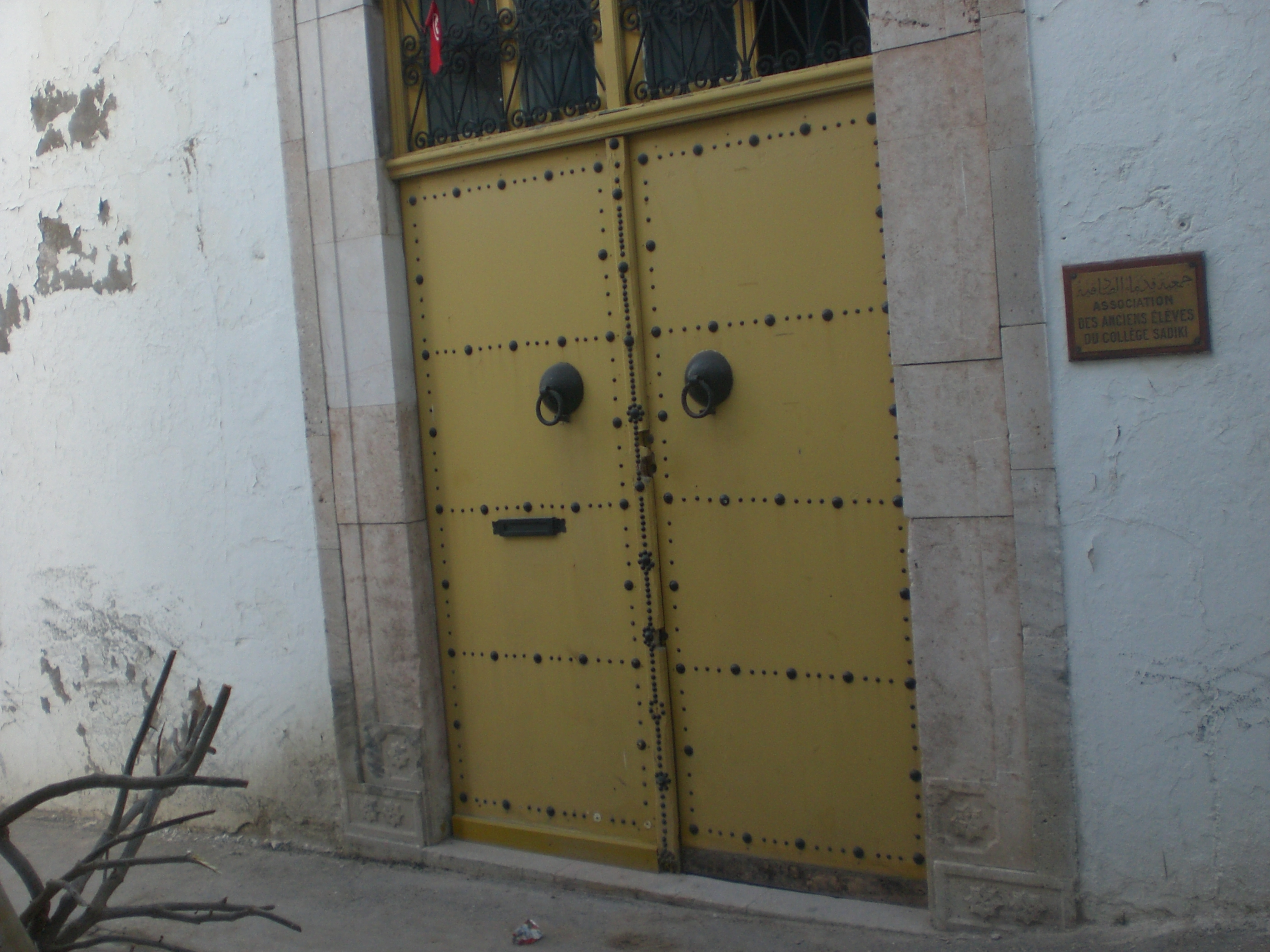 Headquarters of Association des Anciens de Sadiki